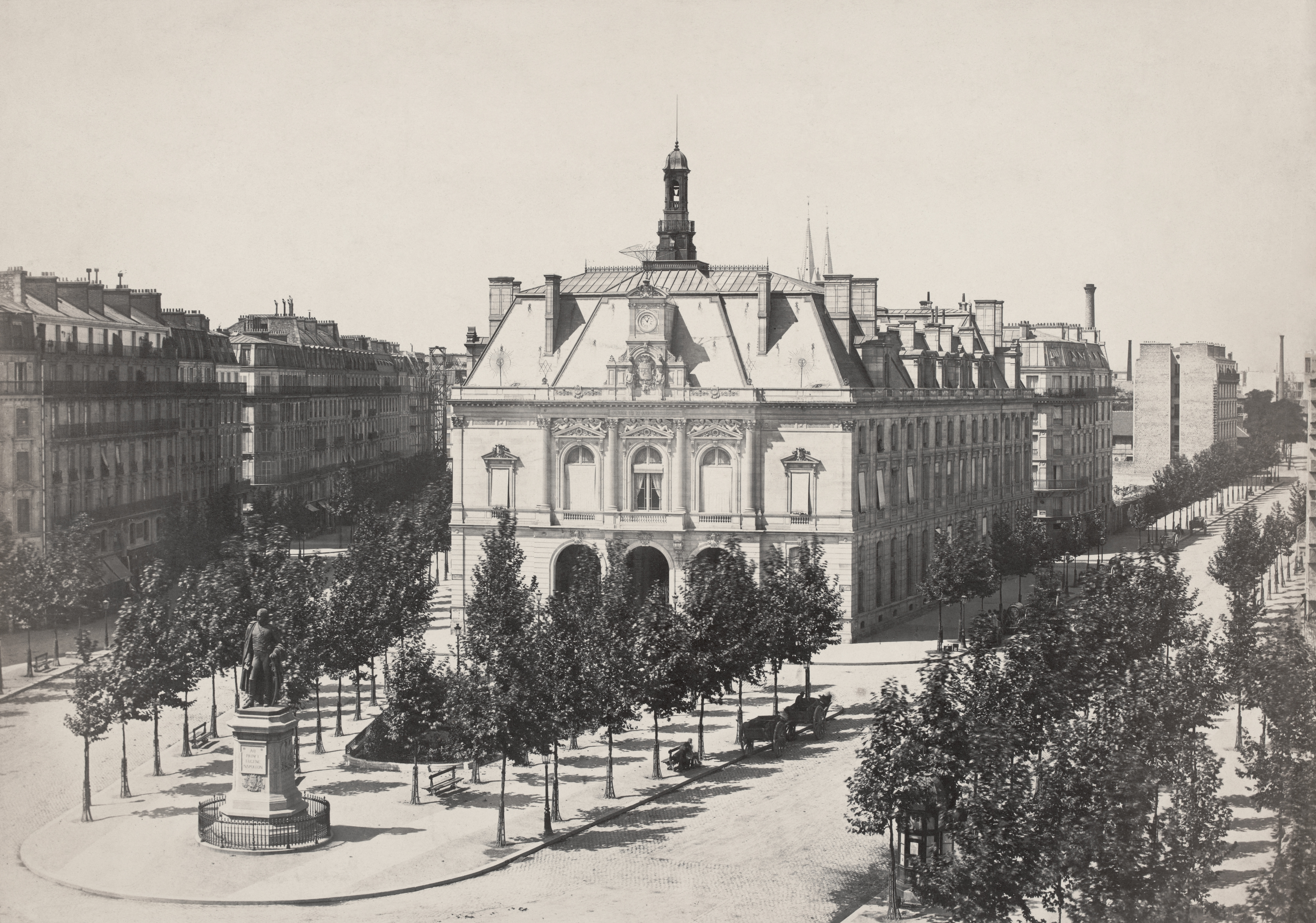 Elevated view of Town Hall of Paris XIe arrondissement with tree lined avenues on both sides and a statue "Au Prince Eugène Napoleon" at point streets meet in foreground of image.